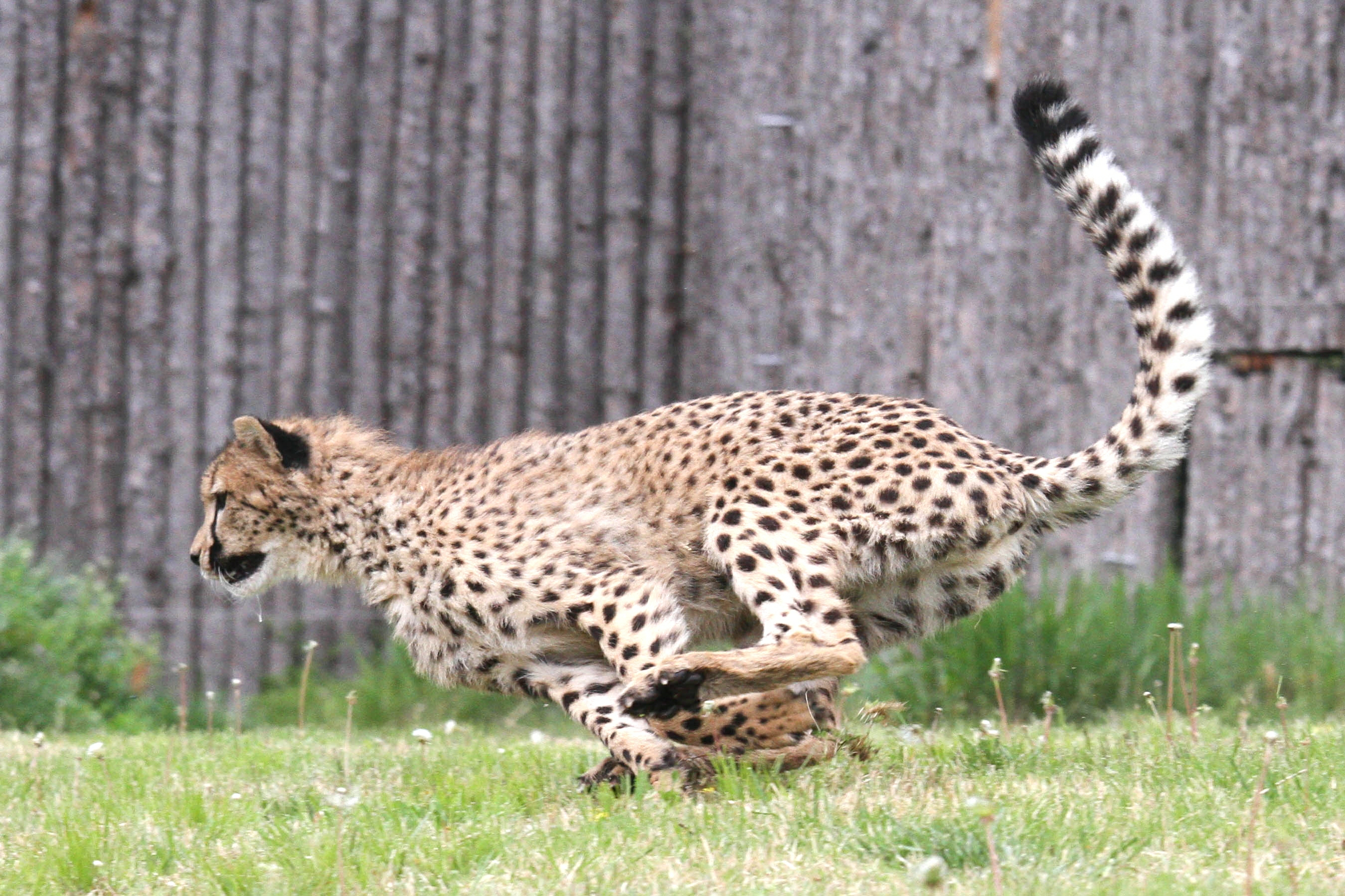 Savanna the Cheetah (Acinonyx jubatus) running at the Cincinnati Zoo. The author said "This photo was taken on April 29, 2013 using a Canon EOS 7D."